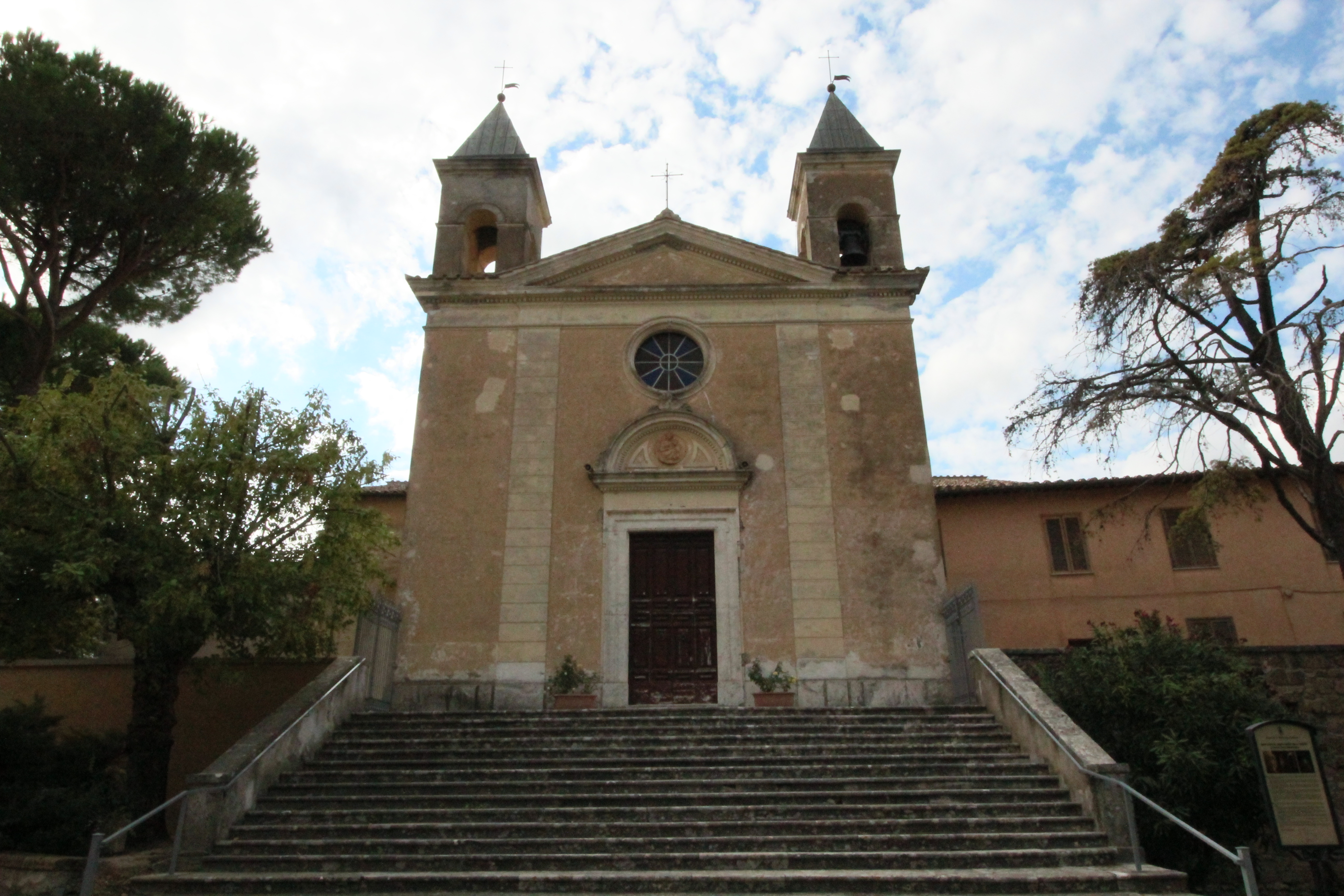 Santuario Santa Maria delle Grazie in Magliano Sabina, Province of Rieti, Lazio (Latium), Italy